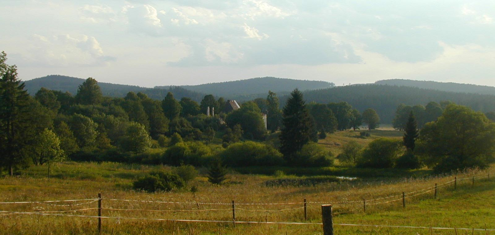 Global view of Pohoří na Šumavě